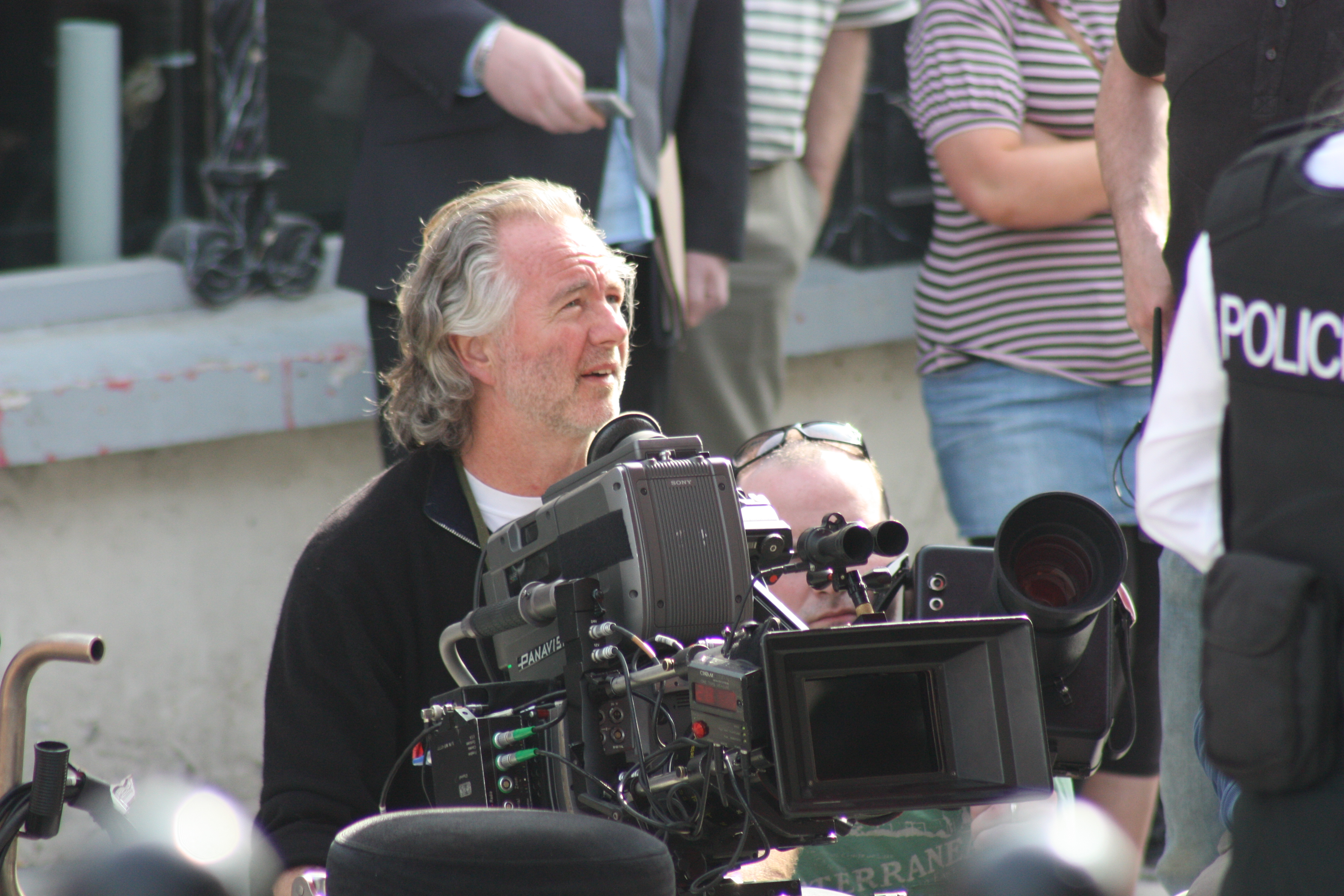 Set of Whole Lotta Sole (2011, directed by Terry George), Scotch Street, Downpatrick, County Down, Northern Ireland, April 2011. Photo shows the cinematographer Des Whelan.